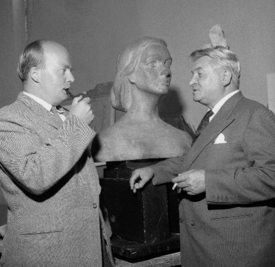 Photograph of the Finnish art historian Dr. Lars Pettersson (1918–1993) and the Finnish sculptor Wäinö Aaltonen (1894–1966).